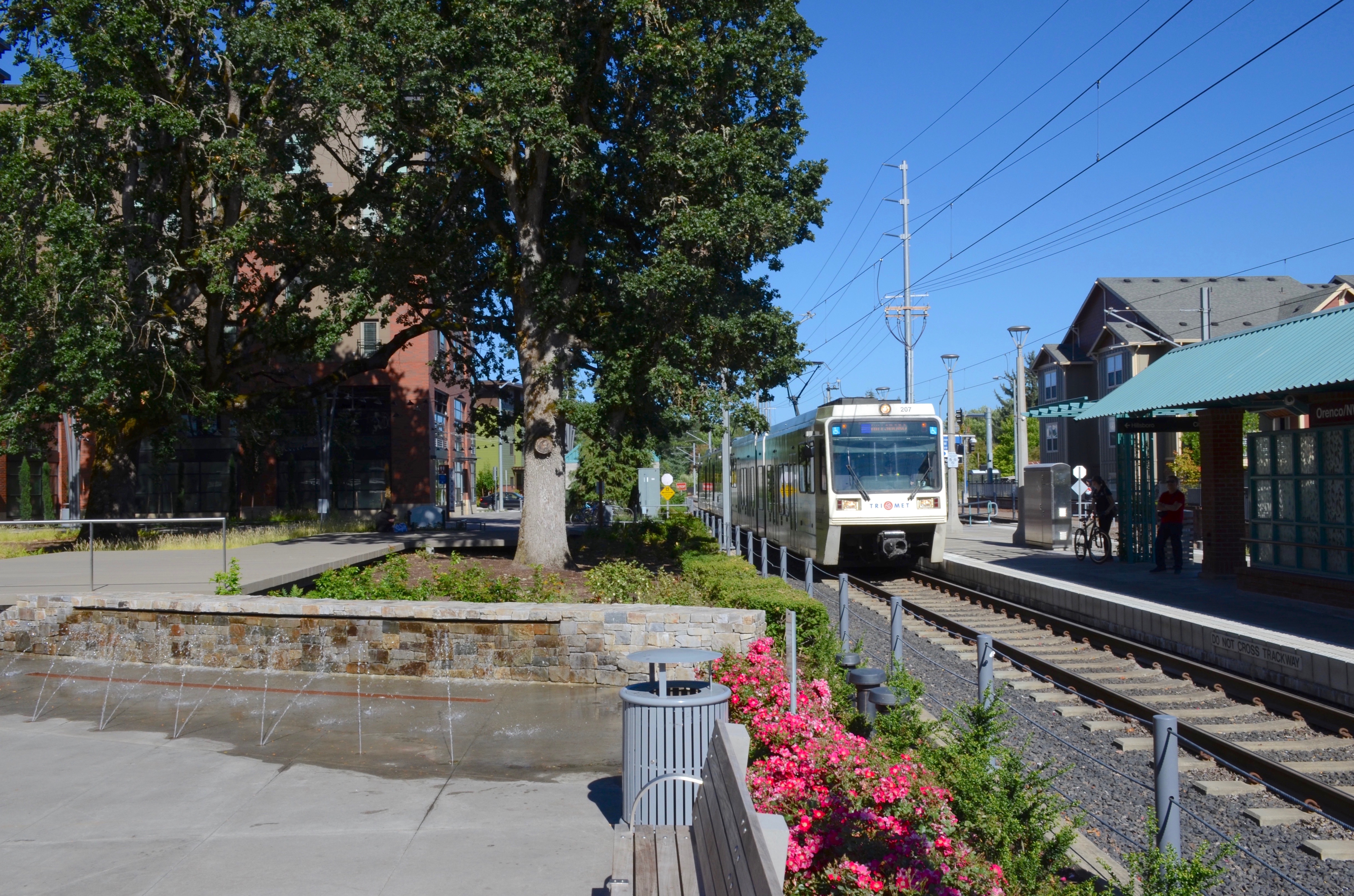 Looking east at Orenco Station Plaza from near the TriMet bus stop, towards the splash pad and small park at the plaza's east end, as a MAX train pulls into the Orenco/NW 231st Avenue MAX station.